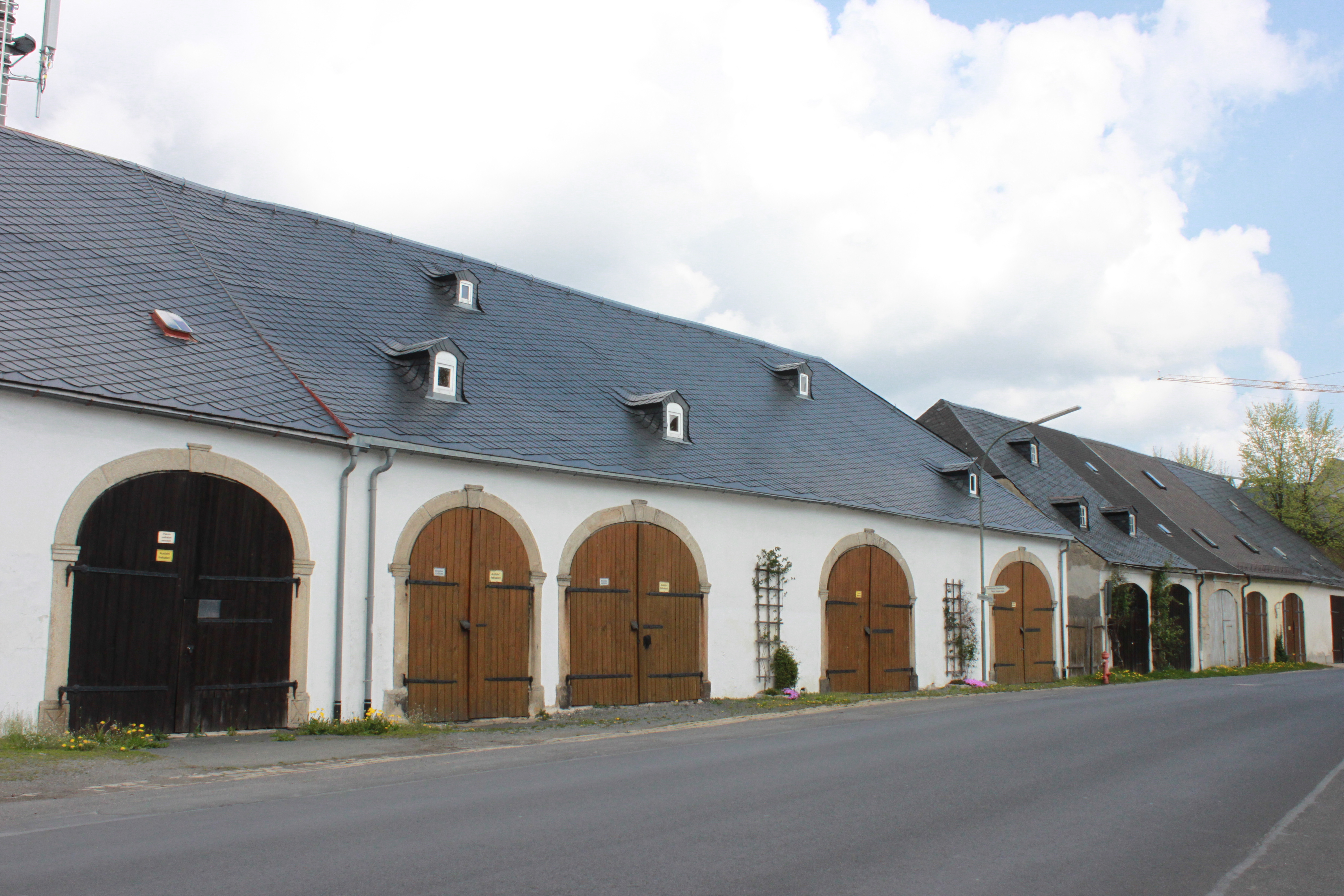 Series of barns at Kirchenlamitzer Straße, Weißenstadt